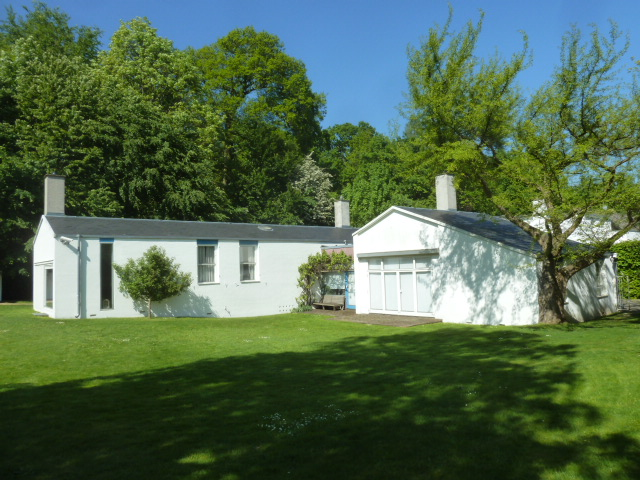 The Finn Juhl House in Copenhagen, Denmark